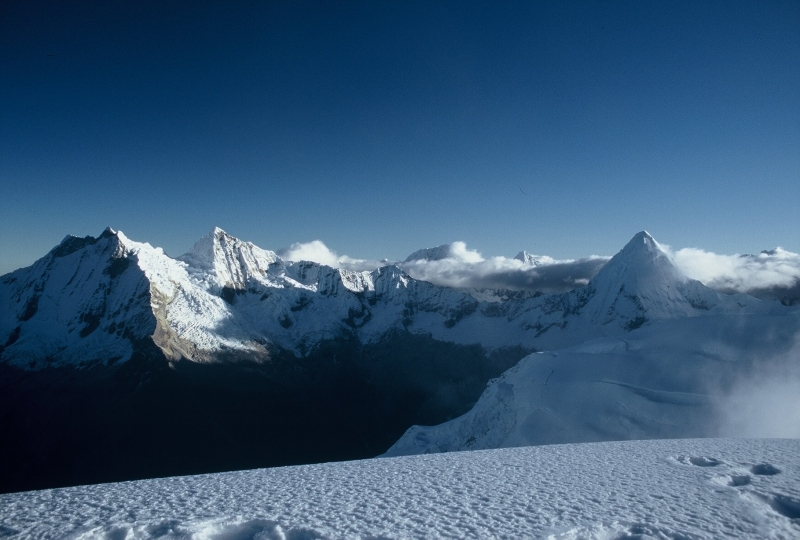 Artesonraju (on the right) and neighbouring peaks as seen from the summit of Pisco Author: Florian Ederer Date: July 2006